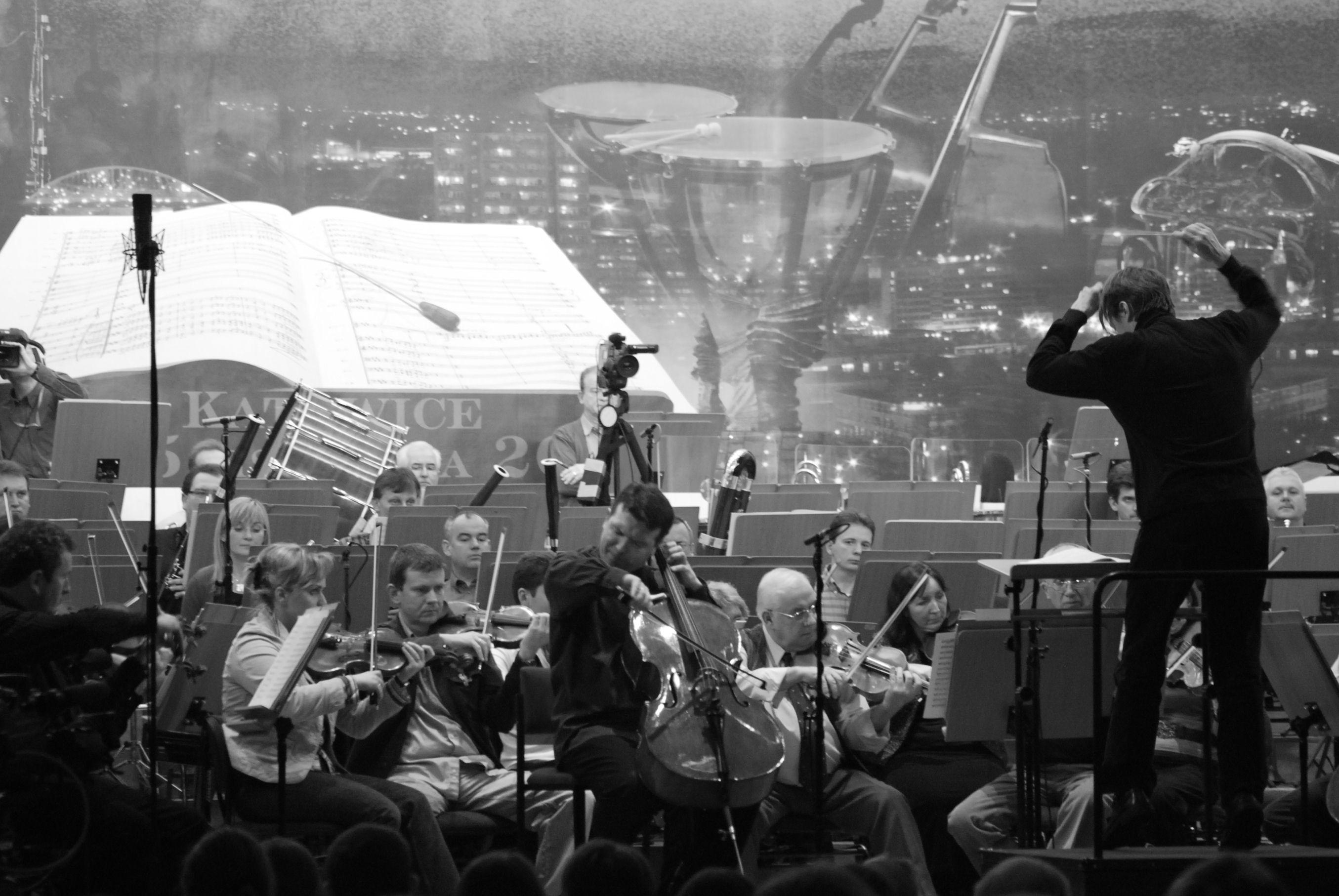 Sasha MAKILA during The 8th Grzegorz Fitelberg International Competition for Conductors in Katowice